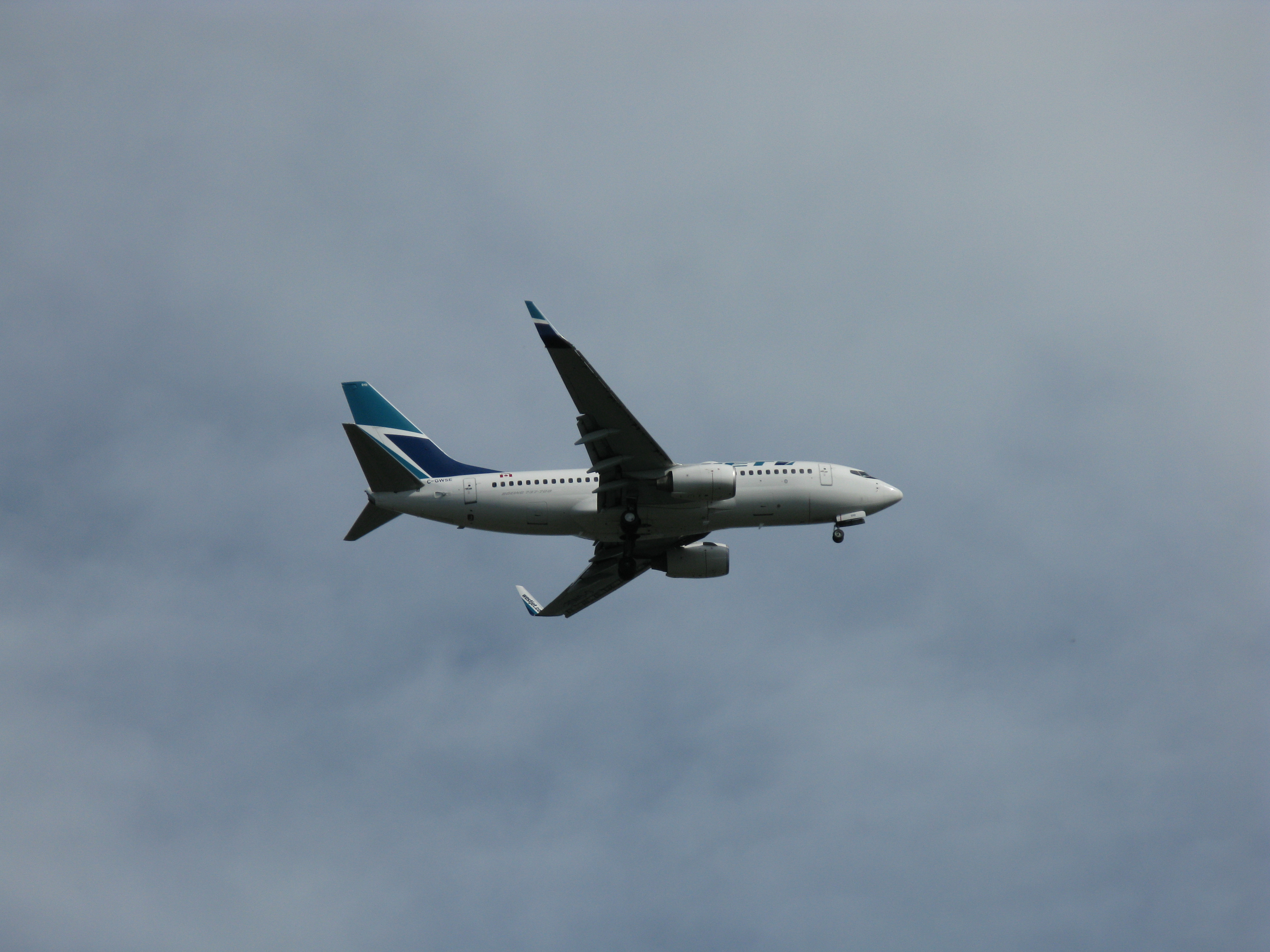 A WestJet Boeing B737-700 (civil registration : C-GWSE) on final for runway 24R at Montréal-Trudeau International Airport (YUL/CYUL).